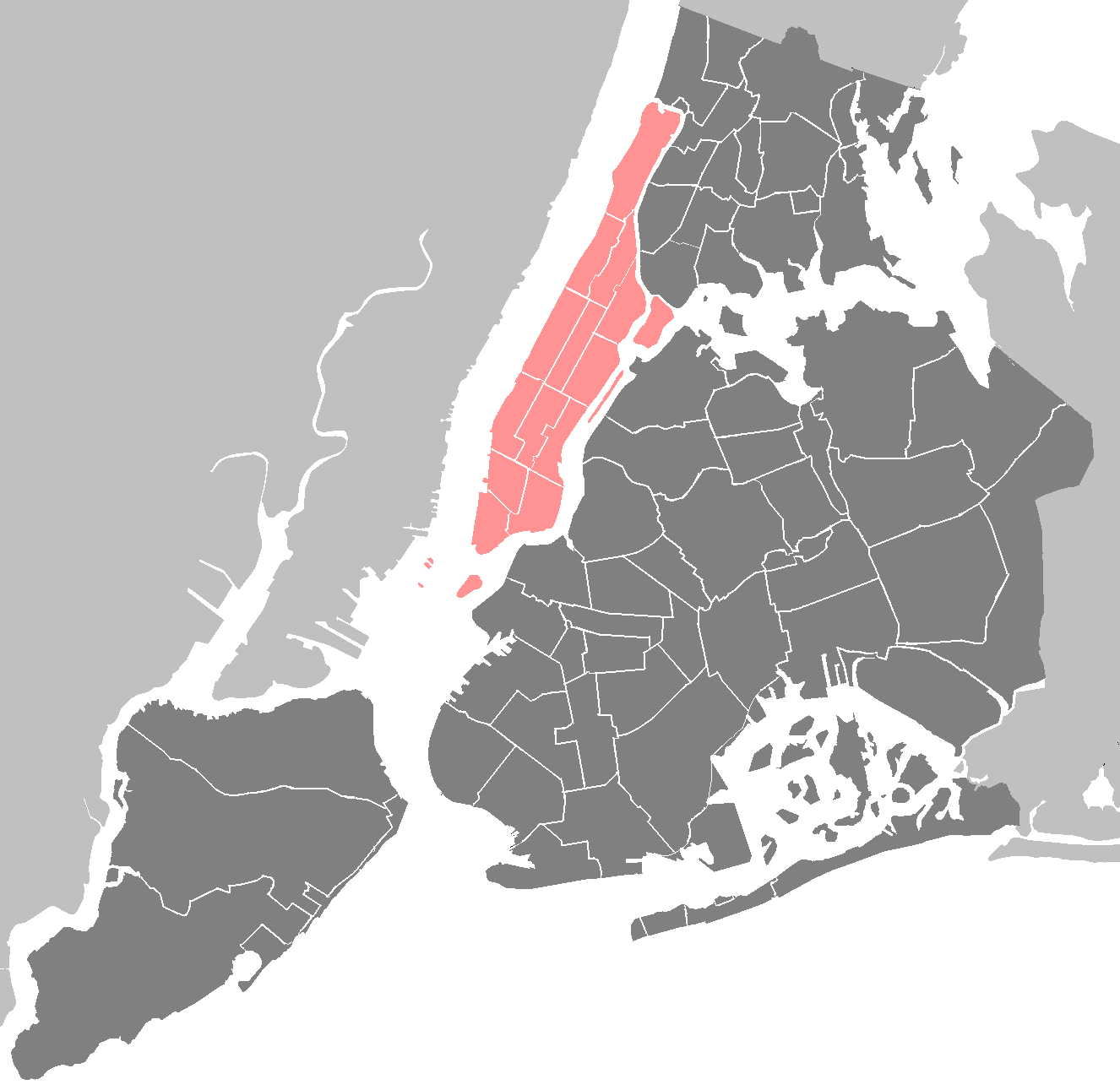 Category:Maps of New York City: New York City - Manhattan.PNG